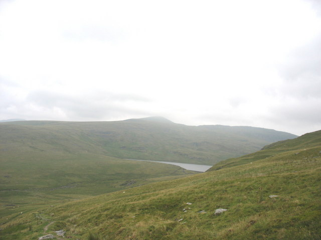 Llyn Bodlyn. A natural lake enlarged at the close of the 19thC to provide water for Barmouth and the surrounding area. It holds the arctic char, a fish found in only a handful of Welsh lakes. The peak in the background is Llethr (756m), the highest of the Rhinogydd mountains.